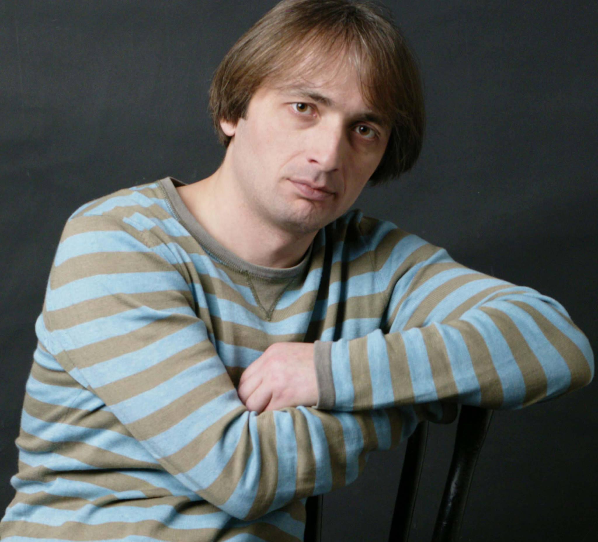 Contemporary Georgian poet